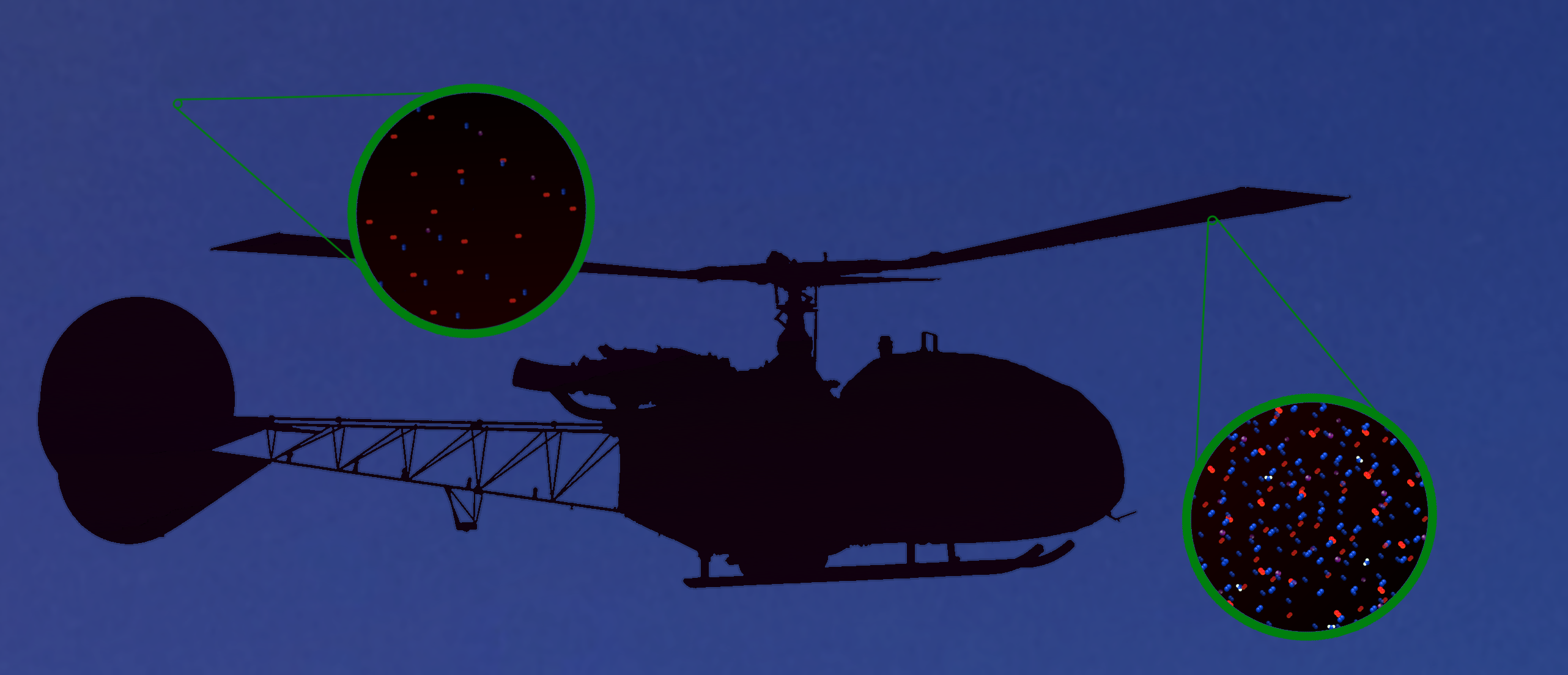 On the right of this figure a microscopic portion of a curved surface of a rotor blade pushes the air down increasing your density, to the left the air remains in the local air density.